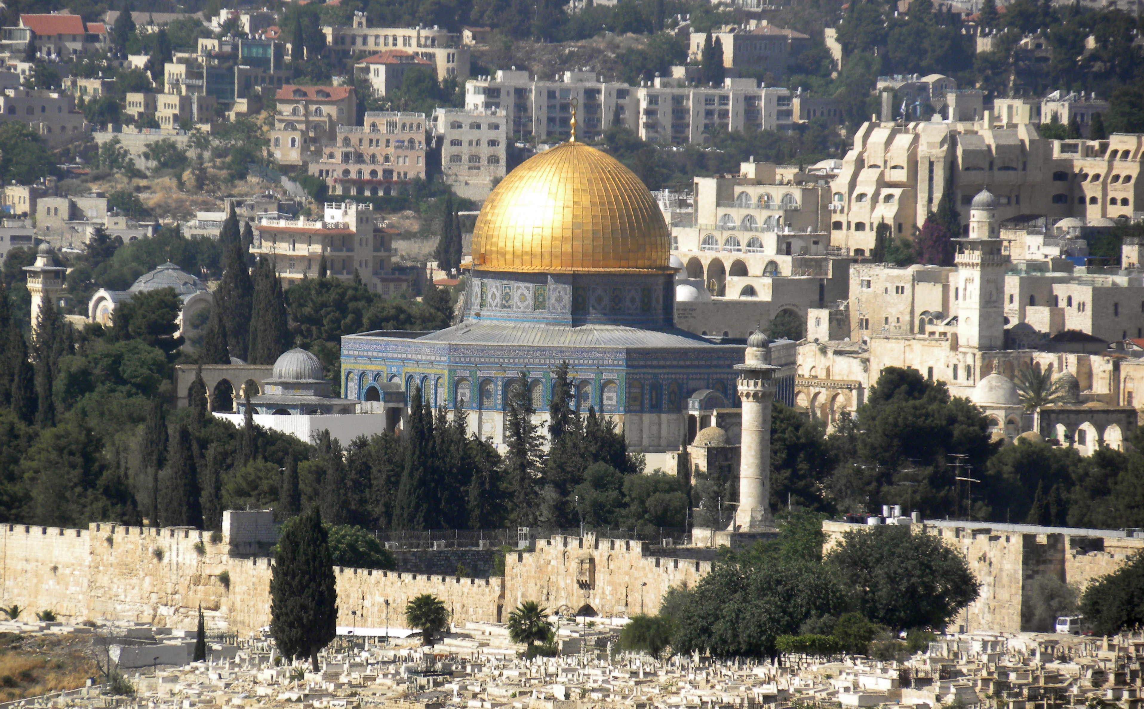 Dome of the Rock as seen from Mount Scopus.